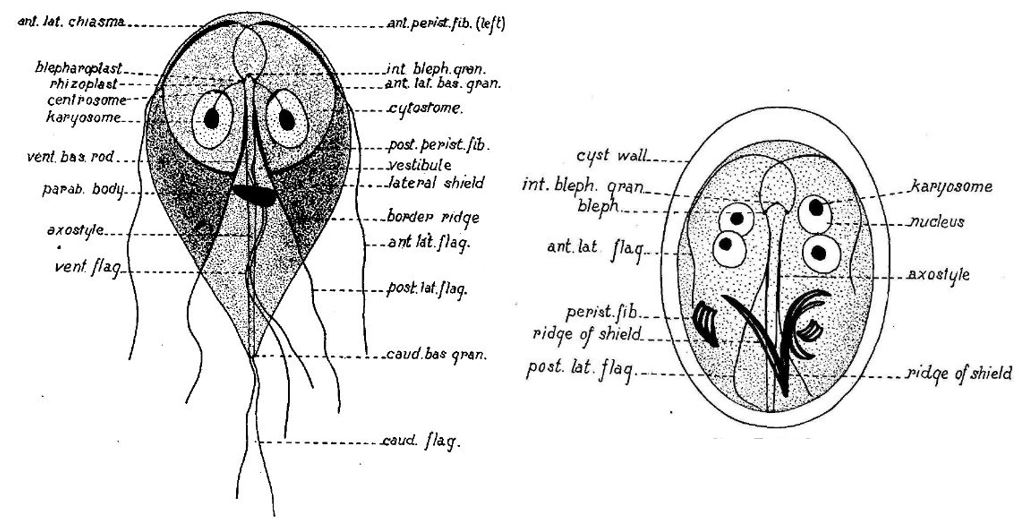 Composite of images already on Wikimedia Commons: File:CESimon_Giardia_Trophozoite.jpg File:CESimon Giardia Cyst.jpg